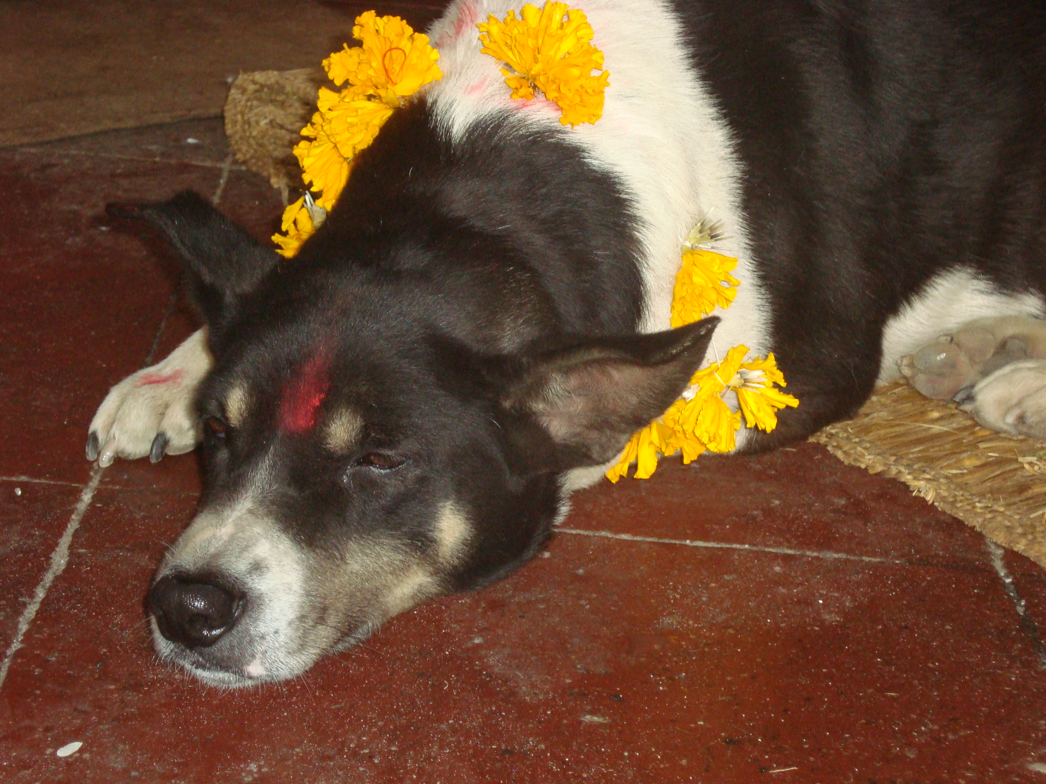 There is the special festival called Kukur Tihar where dogs are worshiped as the incarnation of God Bhairav